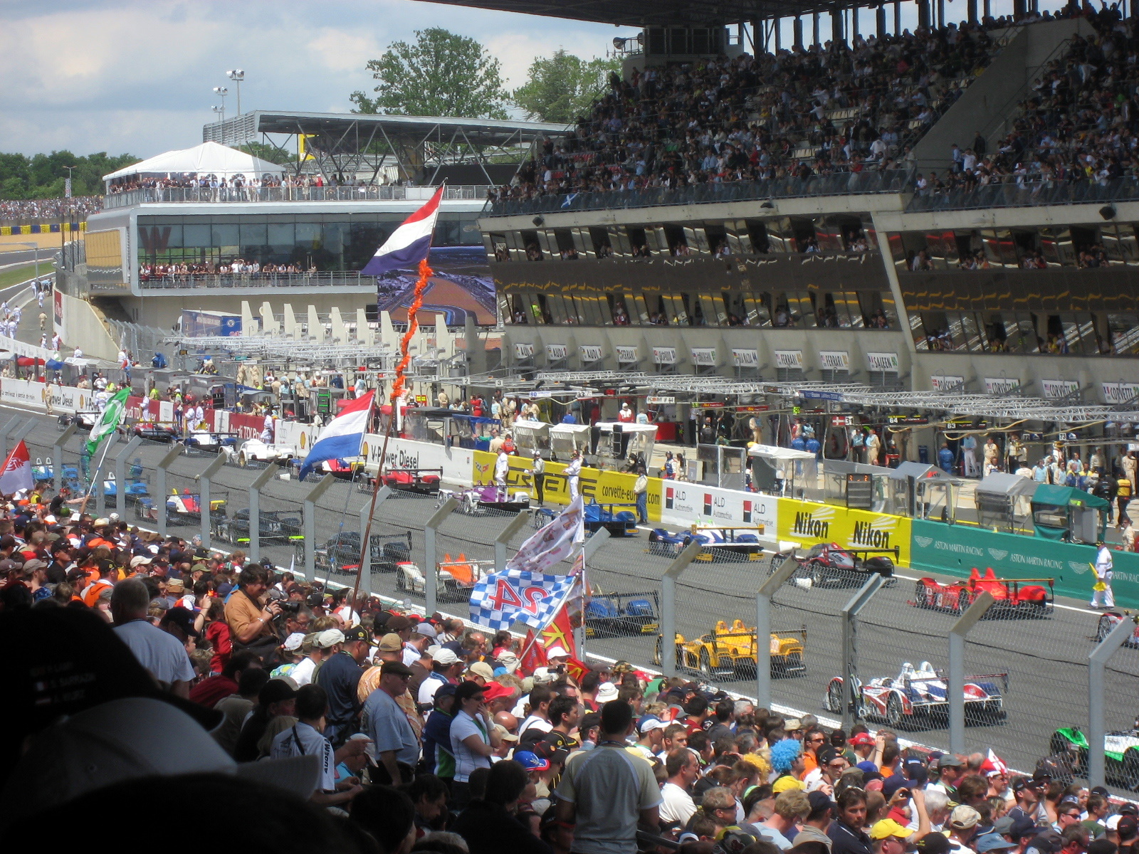 24 Hours of Le Mans start